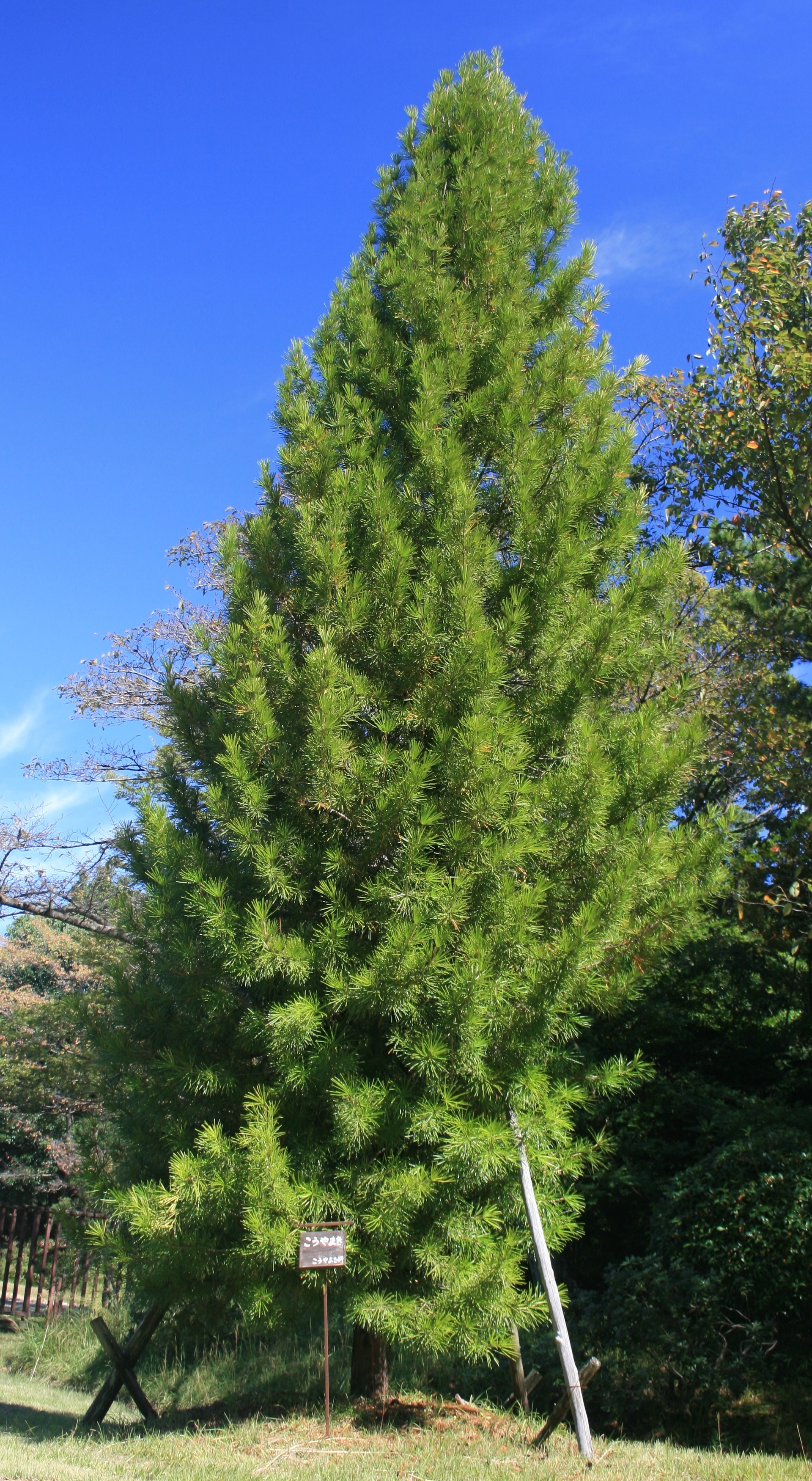 Sciadopitys verticillata in Forest park of Aichi Prefecture (Aichi Prefecture Shinrin Park)